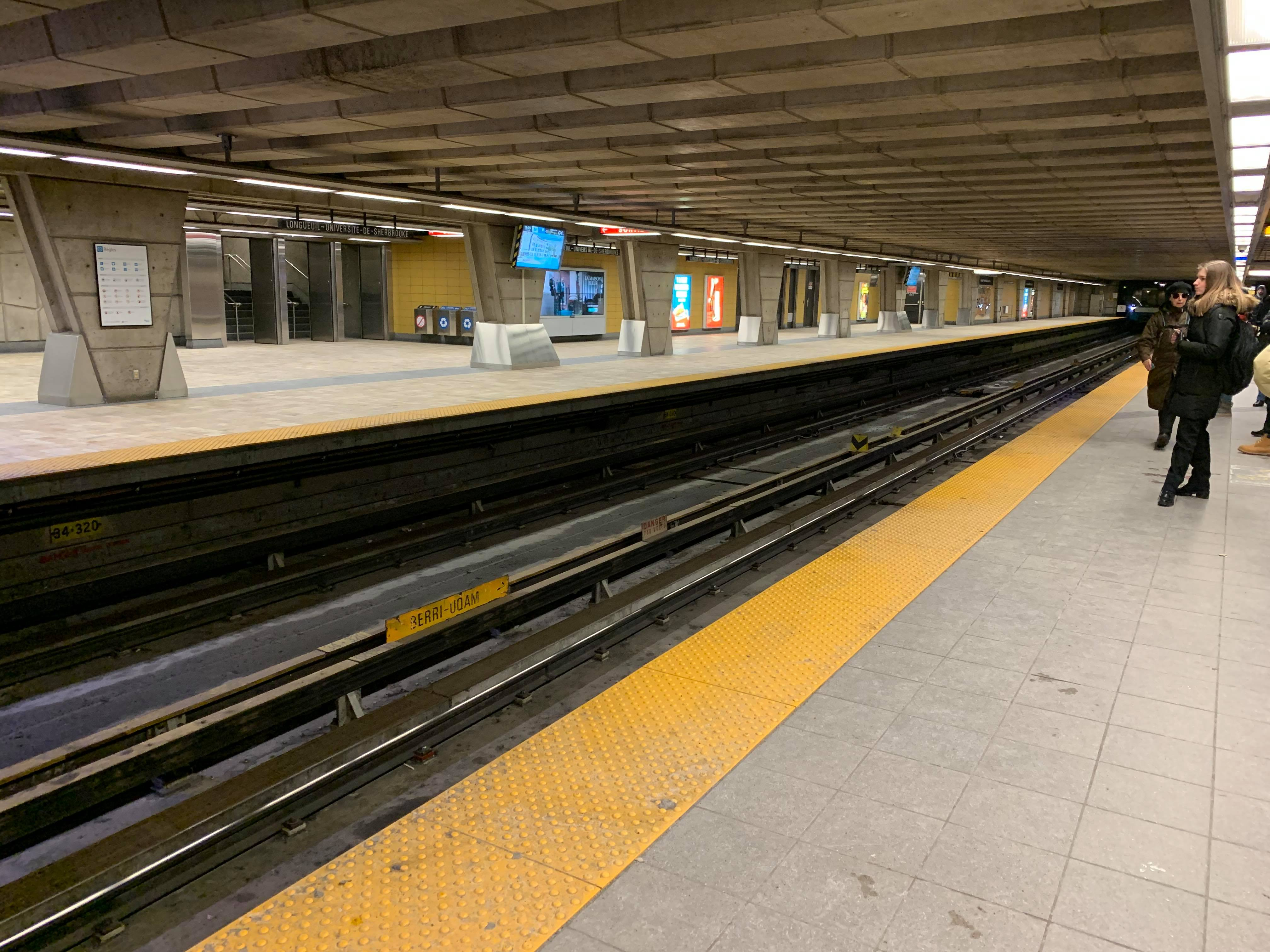 The station as of February 2020